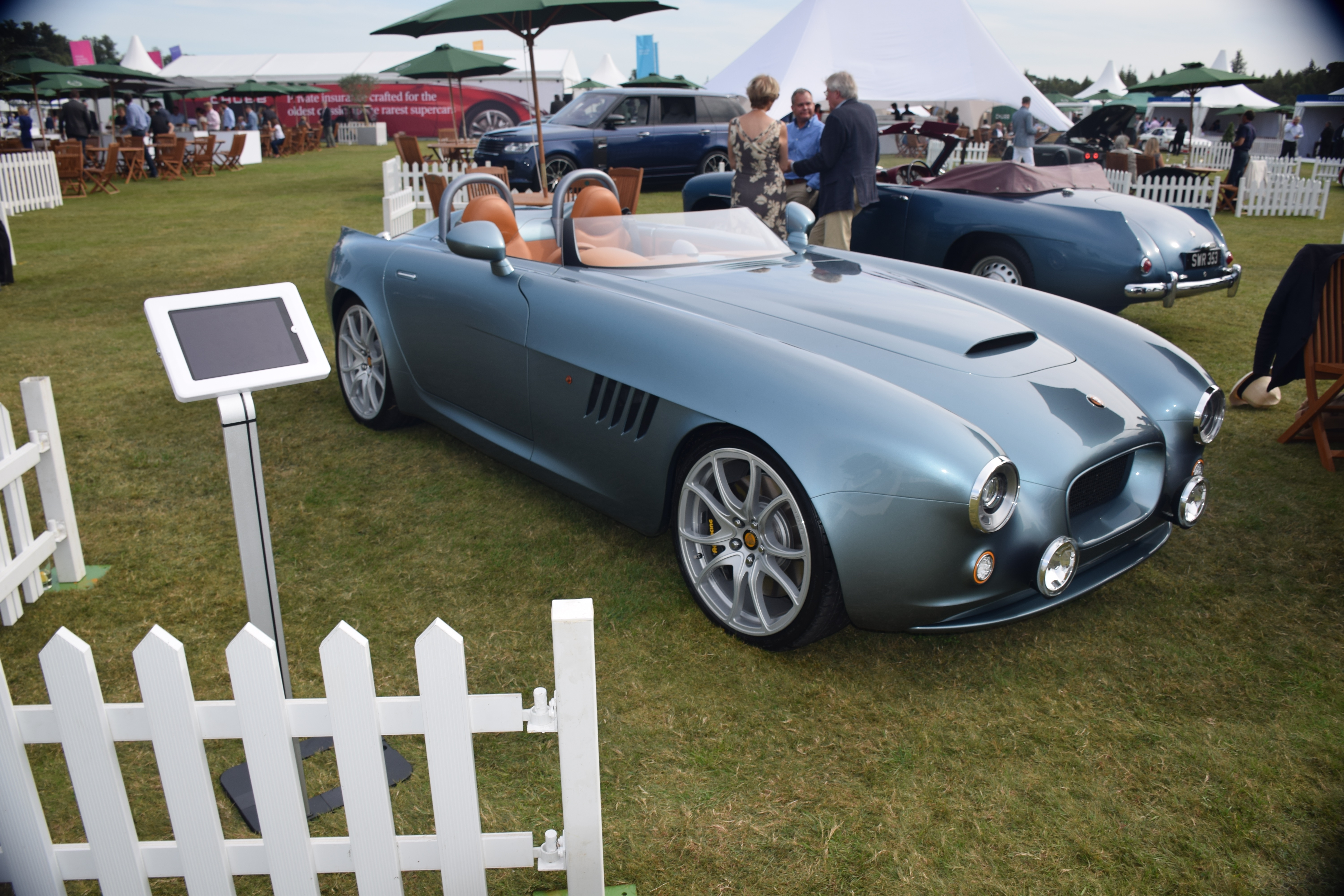 A Bristol Bullet and a Bristol 405 Drophead coupé on display at Salon Prive'.